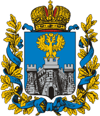 Oryol gubernia (Russian empire), coat of arms